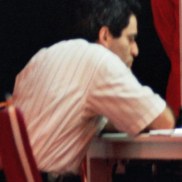 Garry Kasparov, Chess Olympiad 1992 in Manila, Photographer Gerhard Hund.